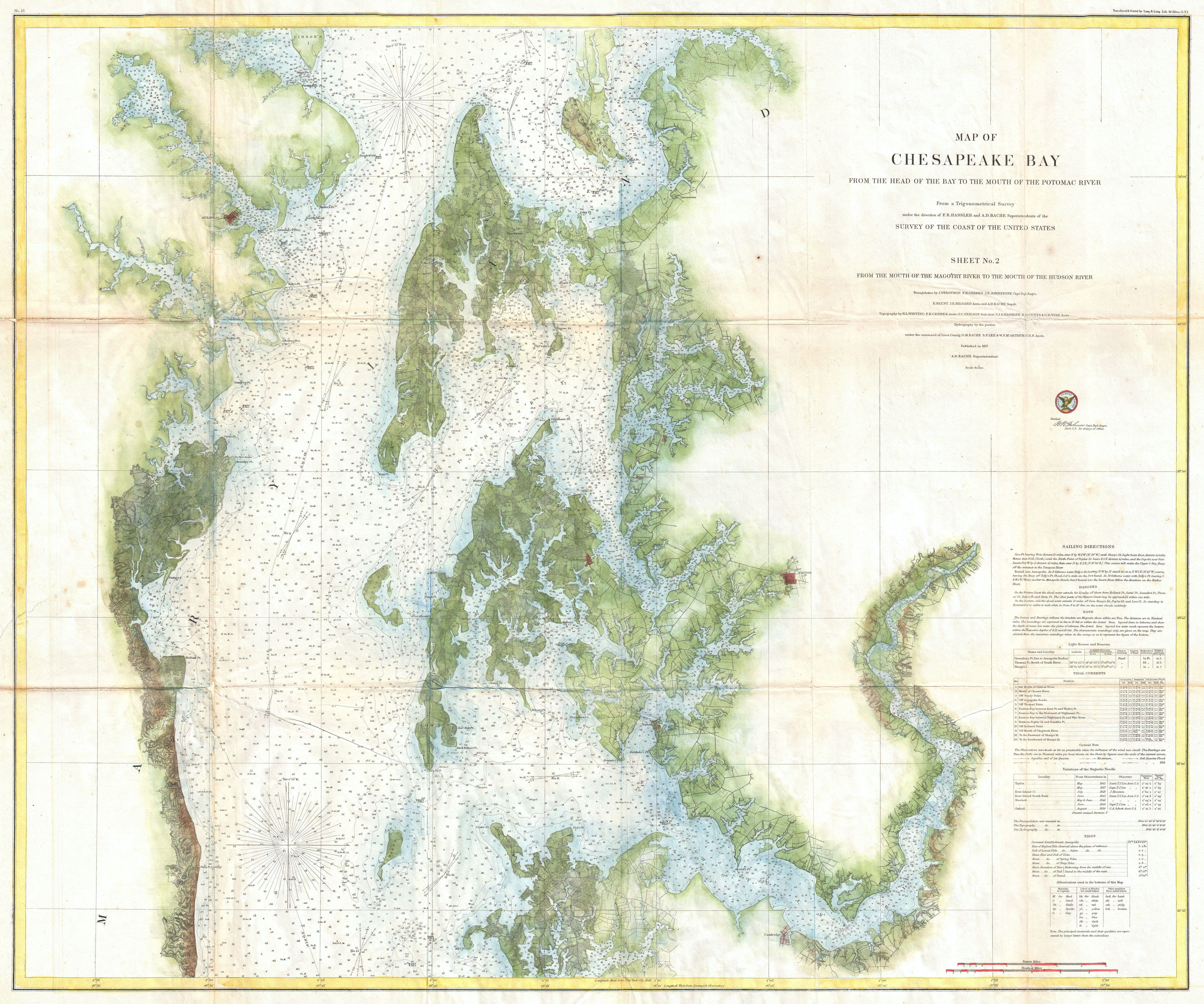 This is an attractive 1857 U.S. Coast Survey chart or nautical map or the central part of the Chesapeake Bay, Maryland. This is chart no. 2 of the three charts created to detail the entire Chesapeake Bay. Covers from roughly 38.35 degrees north latitude to the mouth of the Potomac River. Includes the cities of Annapolis, Cambridge, and Easton, among others. Notes Kent Island, Oxford, Low's Island, Sharp's Island, Choptank River, Cambridge, Herring Bay & Holland Point. Detailed sailing instructions tidal information, and notes on light houses in the lower right quadrant. Based on a trigonometrical survey produced under the direction of F.R. Hassler and A.D. Bache.